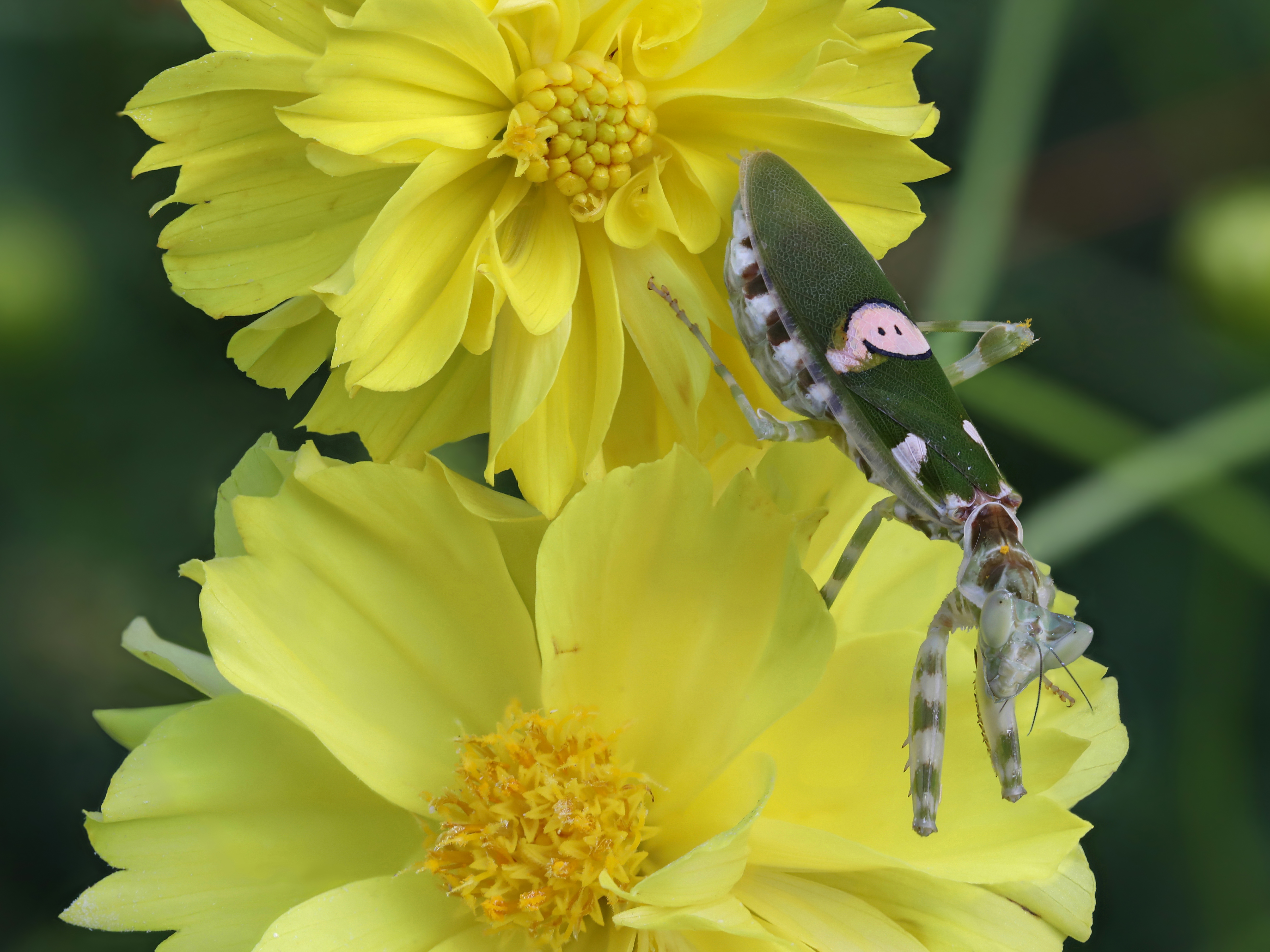 Creobroter gemmatus (jeweled flower mantis) on a Tagetes lucida (marigold), in Laos. The natural design on its wings can be reminiscent of a pink smiley. Focus stacking from 12 pictures, exterior shots.